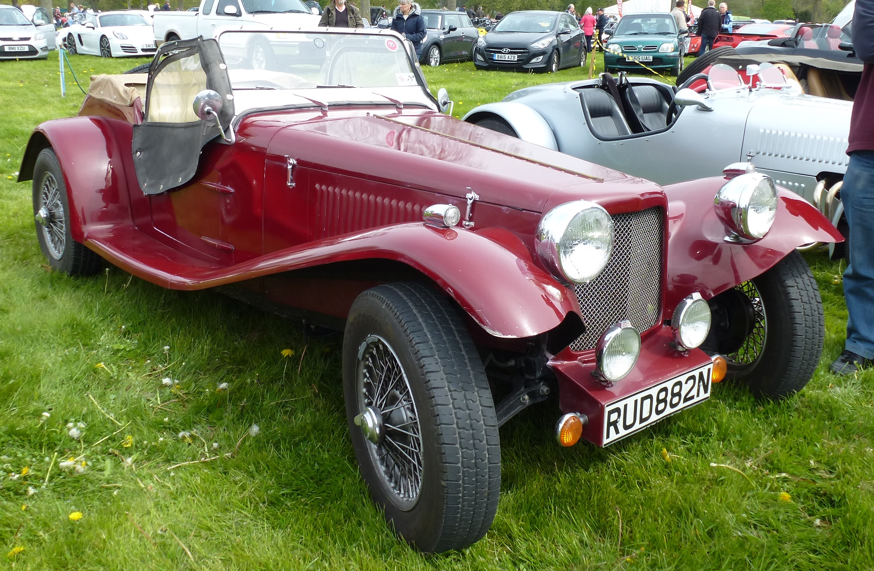 Pastiche Ascot